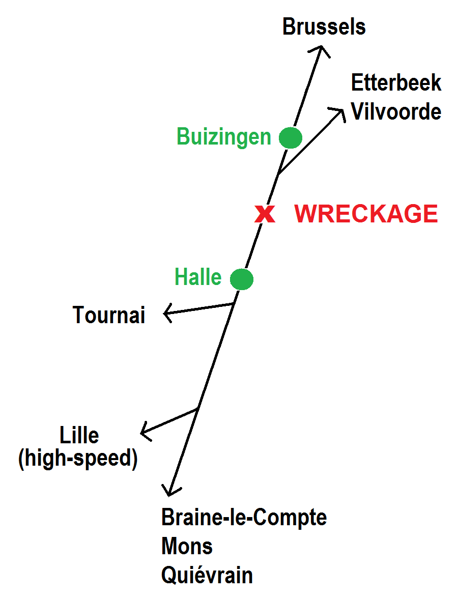 A schematic diagram of the various train line which converge at Halle in Belgium, showing the location of the wreckage from the Halle train collision of 2010-02-15.